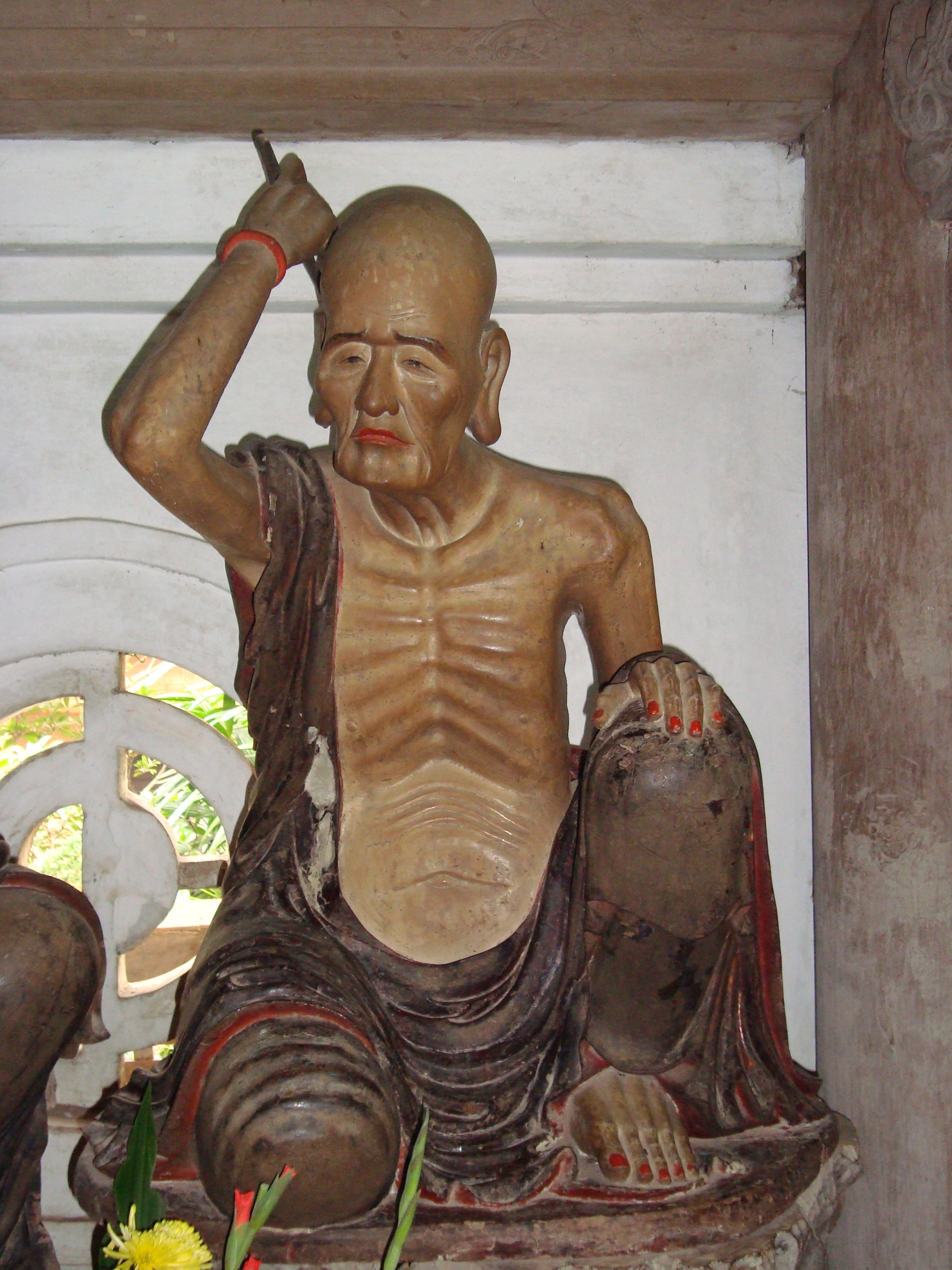 One of the eighteen arhat statues at Tây Phương Buddhist Temple, Thạch Thất District, Hanoi, Vietnam.